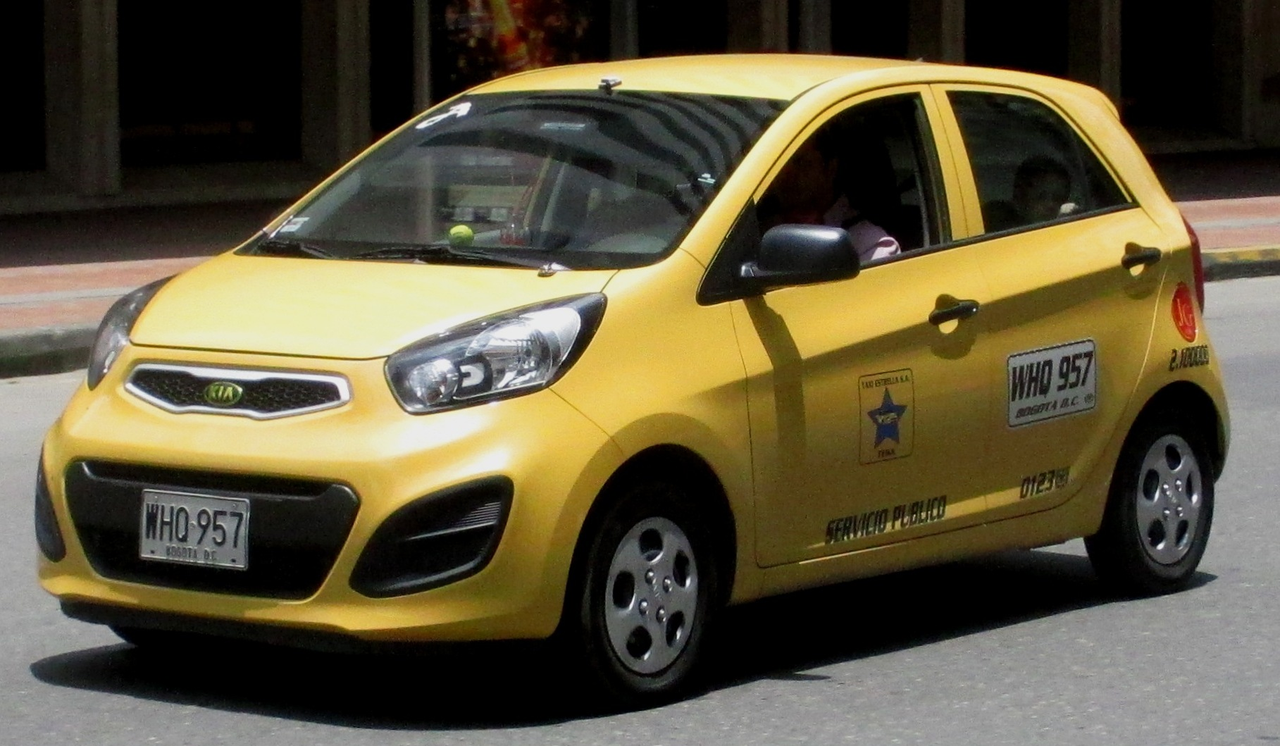 Bogotá